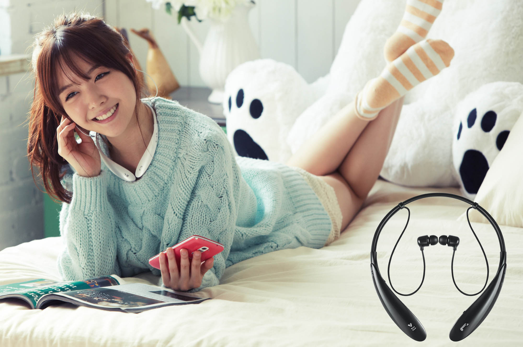 Min-A of Girls' day wearing headset